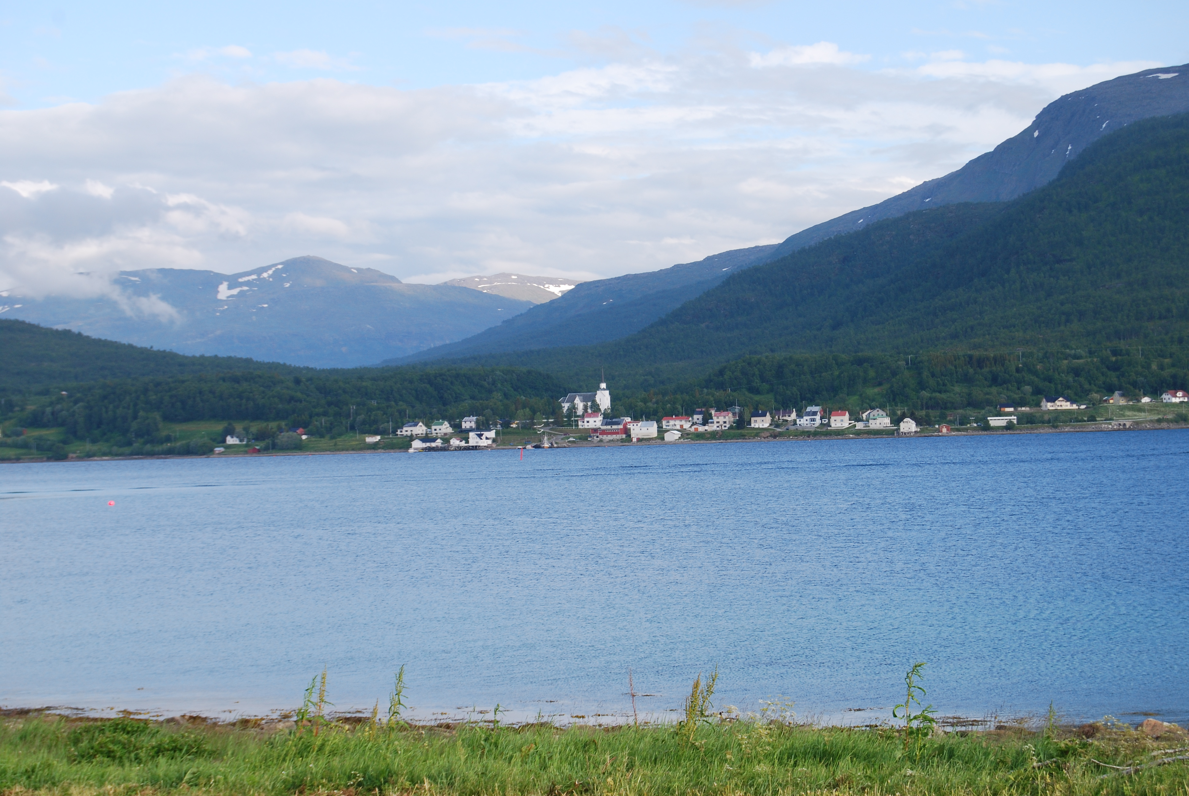 Lenvik kirke from the sight of Gibostad village on Senja, Norway.